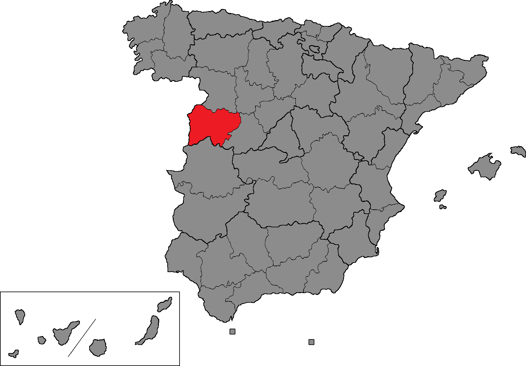 Spanish Congress of Deputies district of Salamanca.